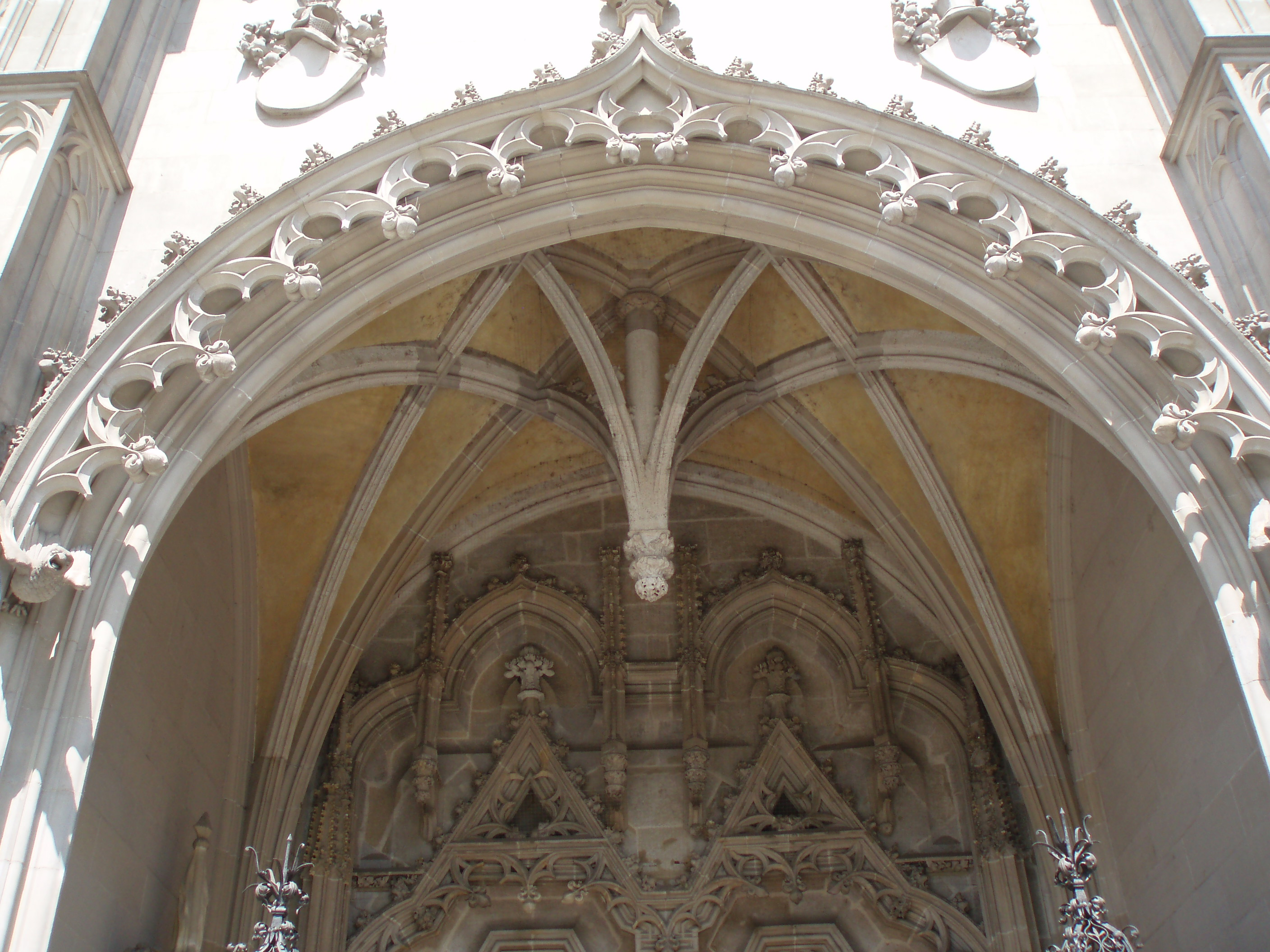 Southern portal of St.Elisabeth Cathedral in Košice